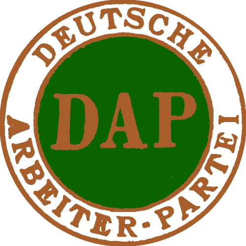 The logo of the German Workers' Party (DAP) before it's renaming to the NSDAP. Made from a photograph of a party pin.